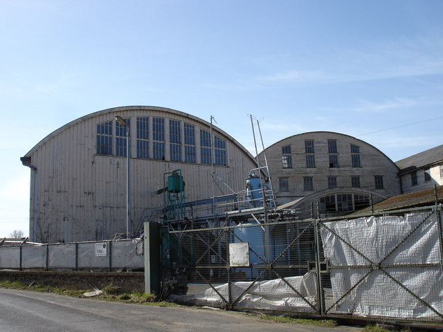 Disused factory, Paper Mill Lane (Destroyed by fire in 2019).